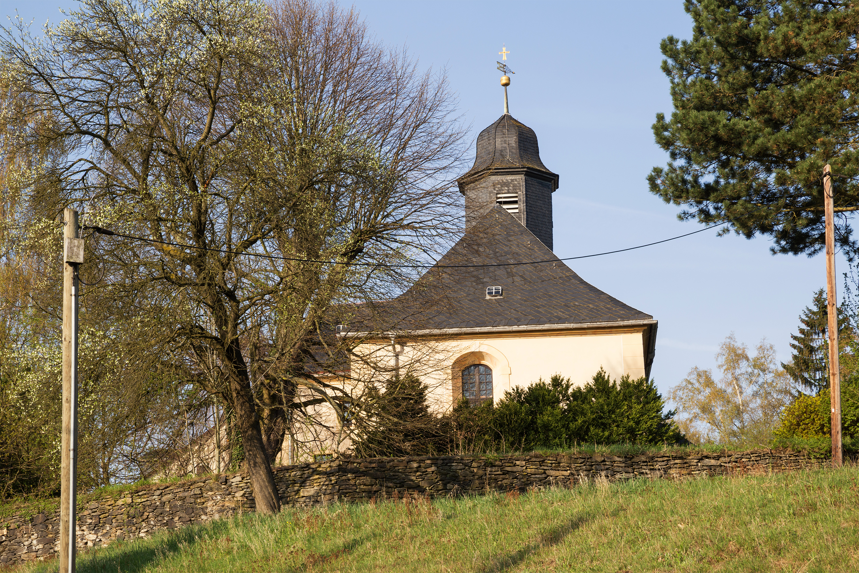 Tuttendorf (Halsbrücke), Saint Anne Church